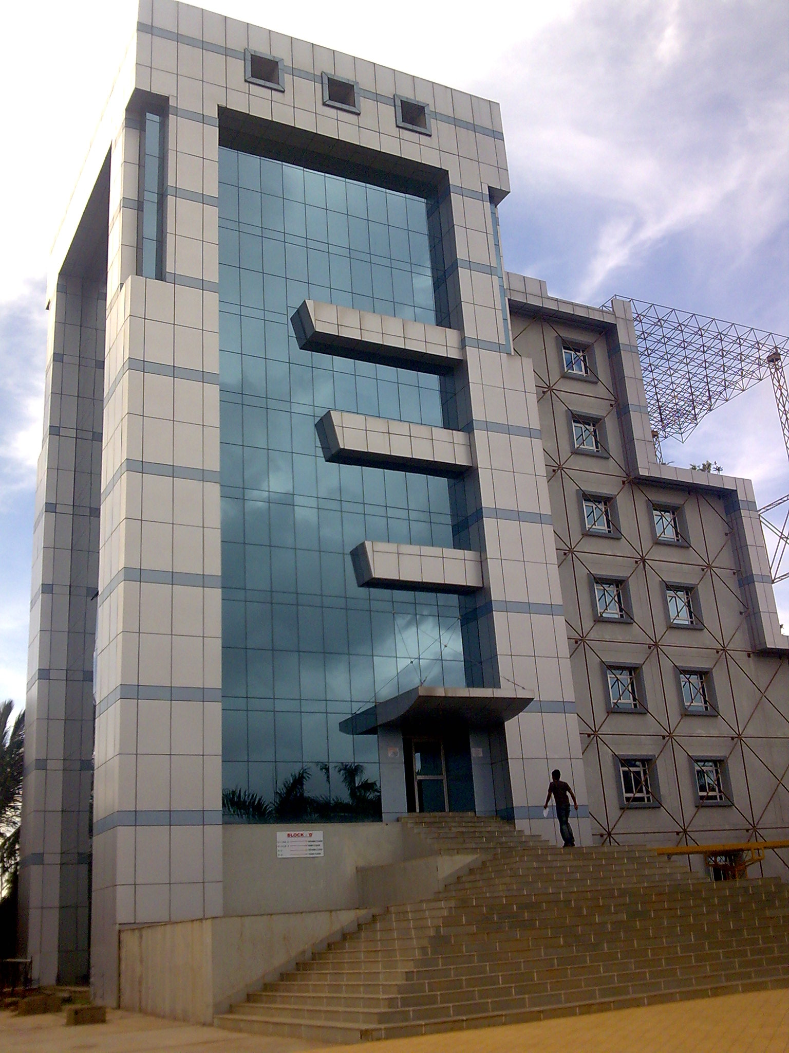 School of Computer Application and School of Languages of KIIT University, Bhubaneswar, Orissa